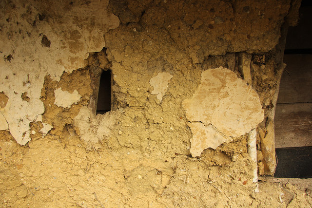 Mud & Stud